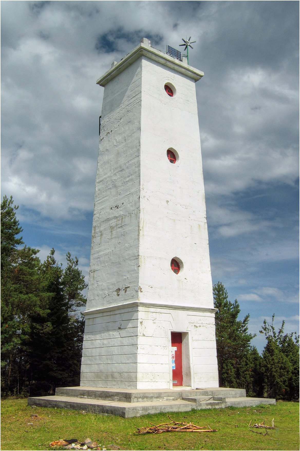 Hiiessaare front lighthouse